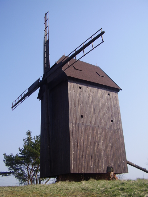 Windmill in Leśniów Wielki